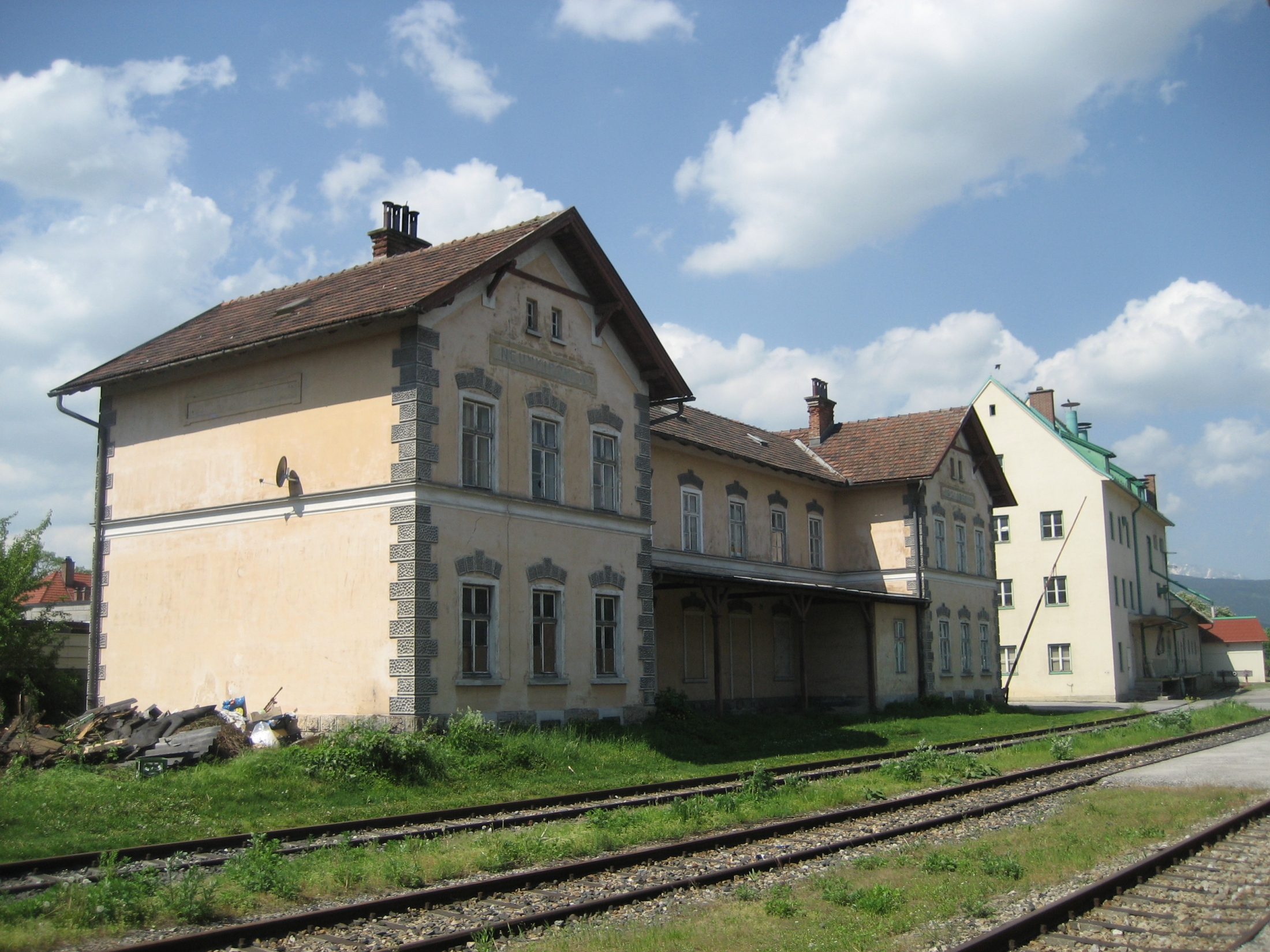 Former train station Neunkirchen Lokalbahn in Lower Austria